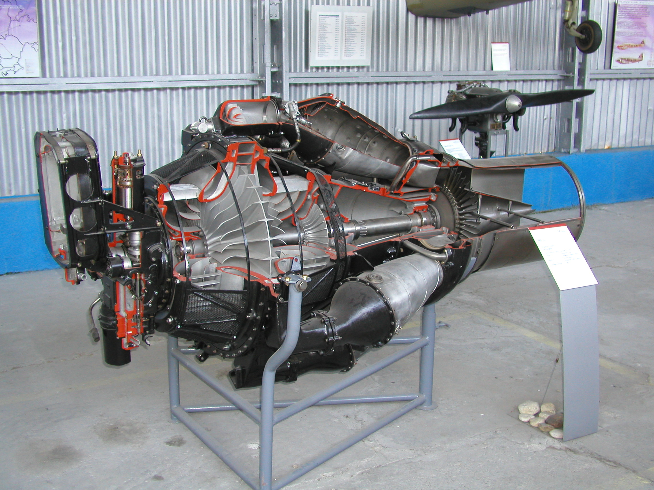 Cutaway of RD-500 turbojet engine (displayed at the Kosice Aviation Museum, Kosice, Slovakia)